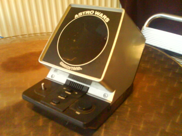 The tabletop electronic game, Astro Wars. Distributed in the UK in the early 1980s by Grandstand.